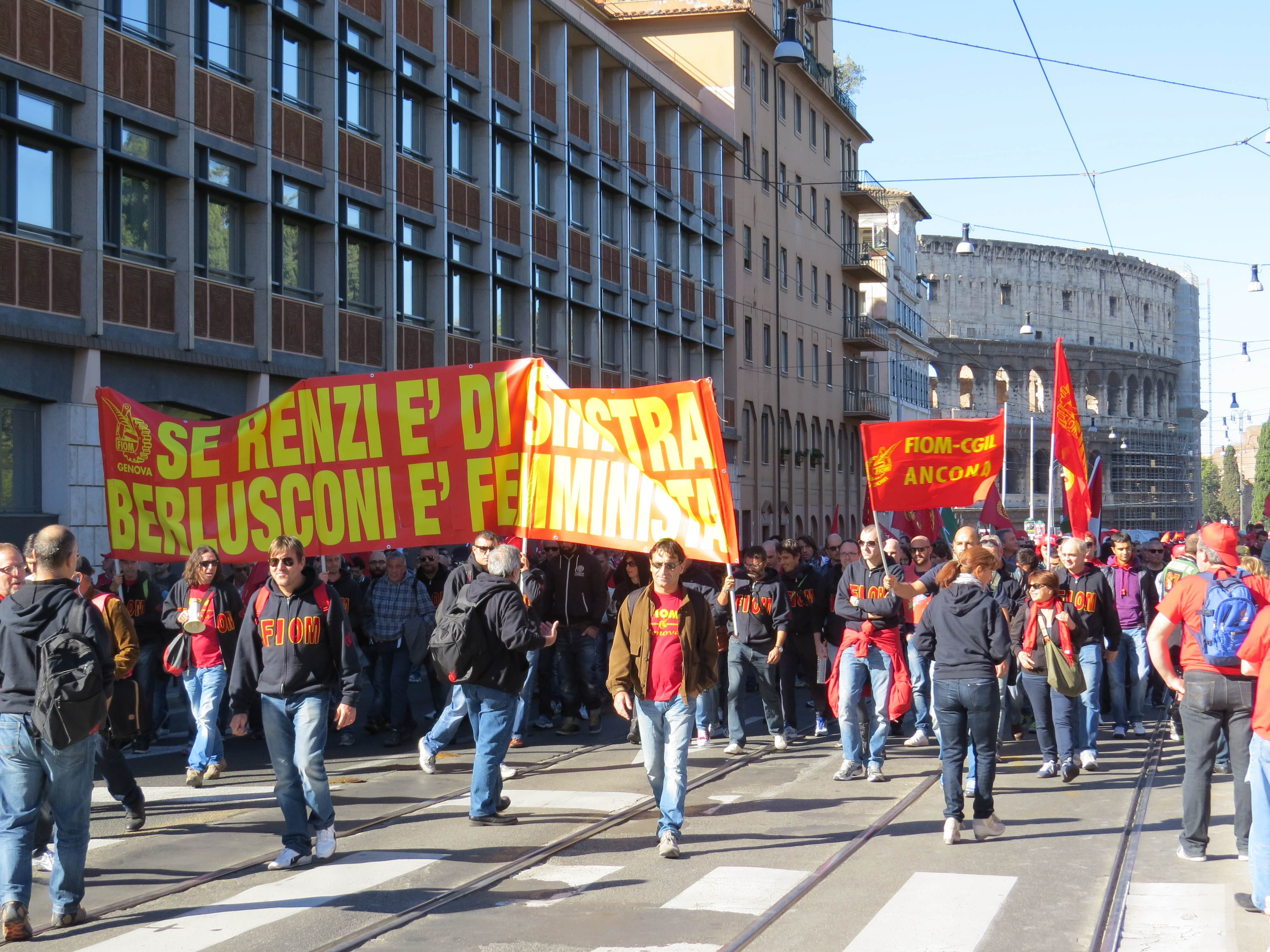 Corteo FIOM